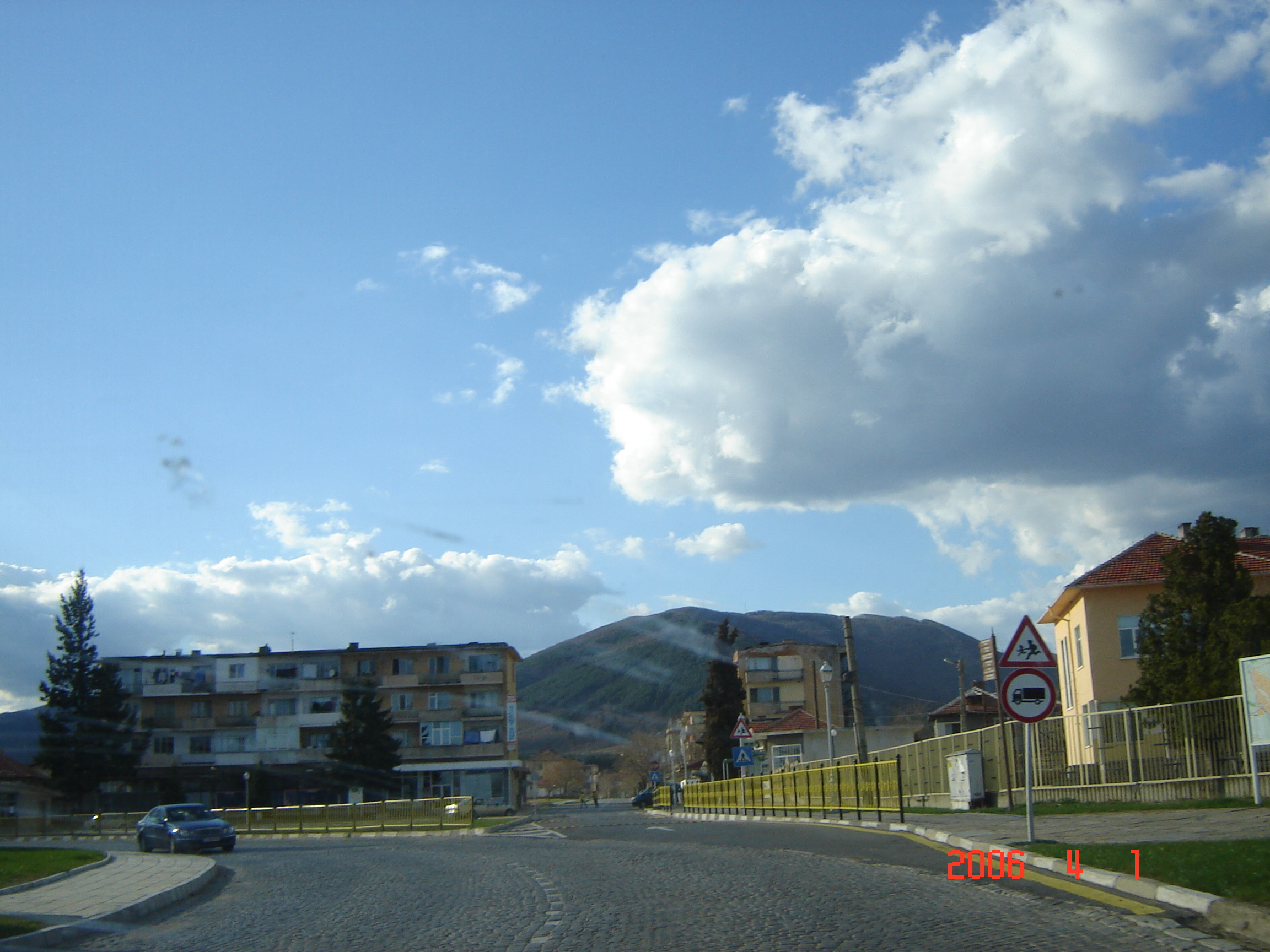 Gurkovo